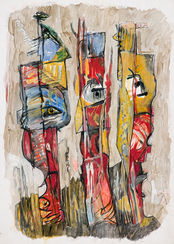 "Die Wächter" (The Guards), gouache, Lorenz Leisner, 1968